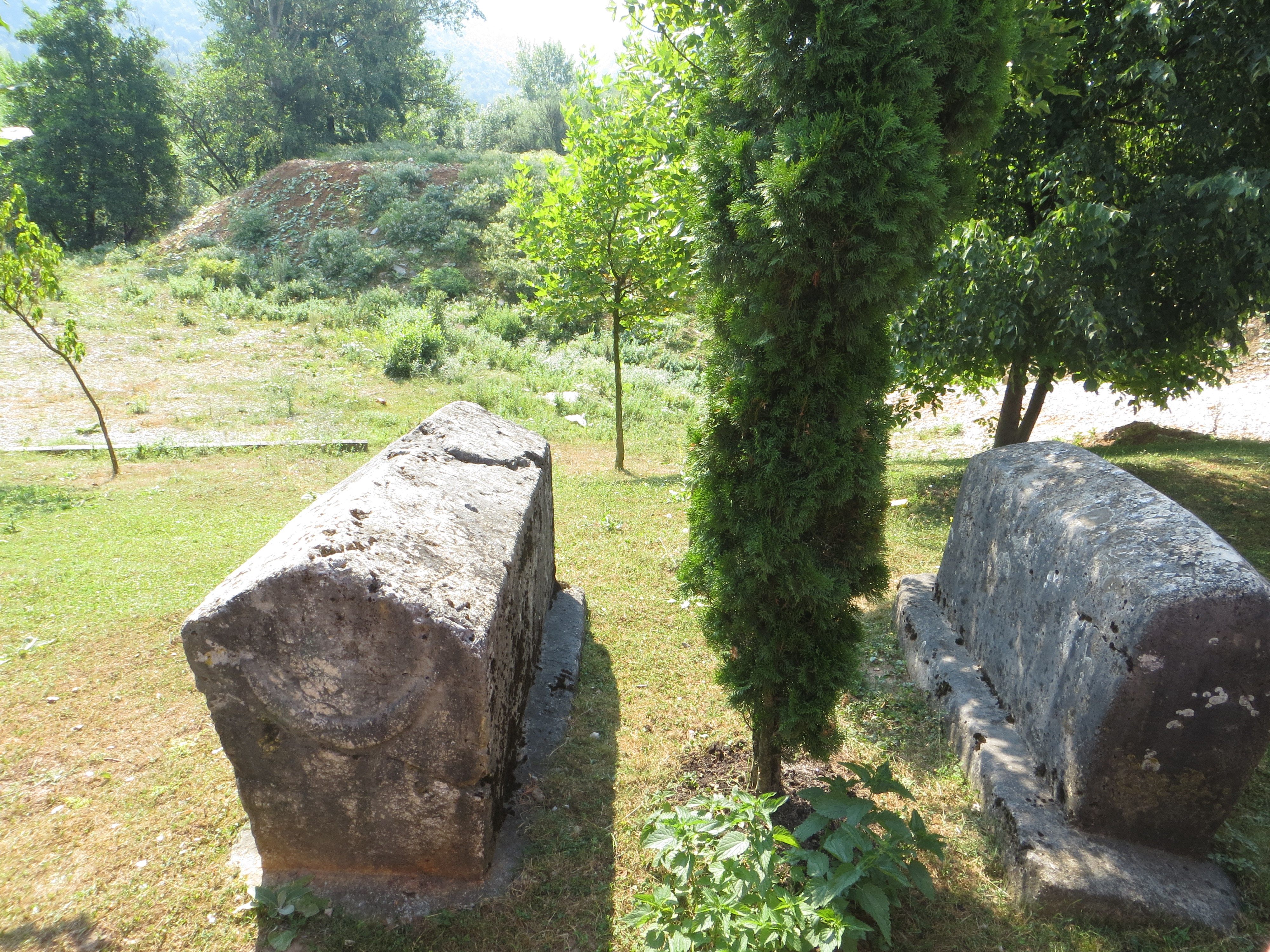 This cultural heritage site is made up from aproximatly 21 stećak and 12 nišan transported to their current location due to nearby quarry, in Krupac, extending its operation to their former location.Two stećak monuments and one nišan monument are separated from the main find and are situated in the nearby settlement of Vojkovići. This image was uploaded as part of Trace of Soul 2015.